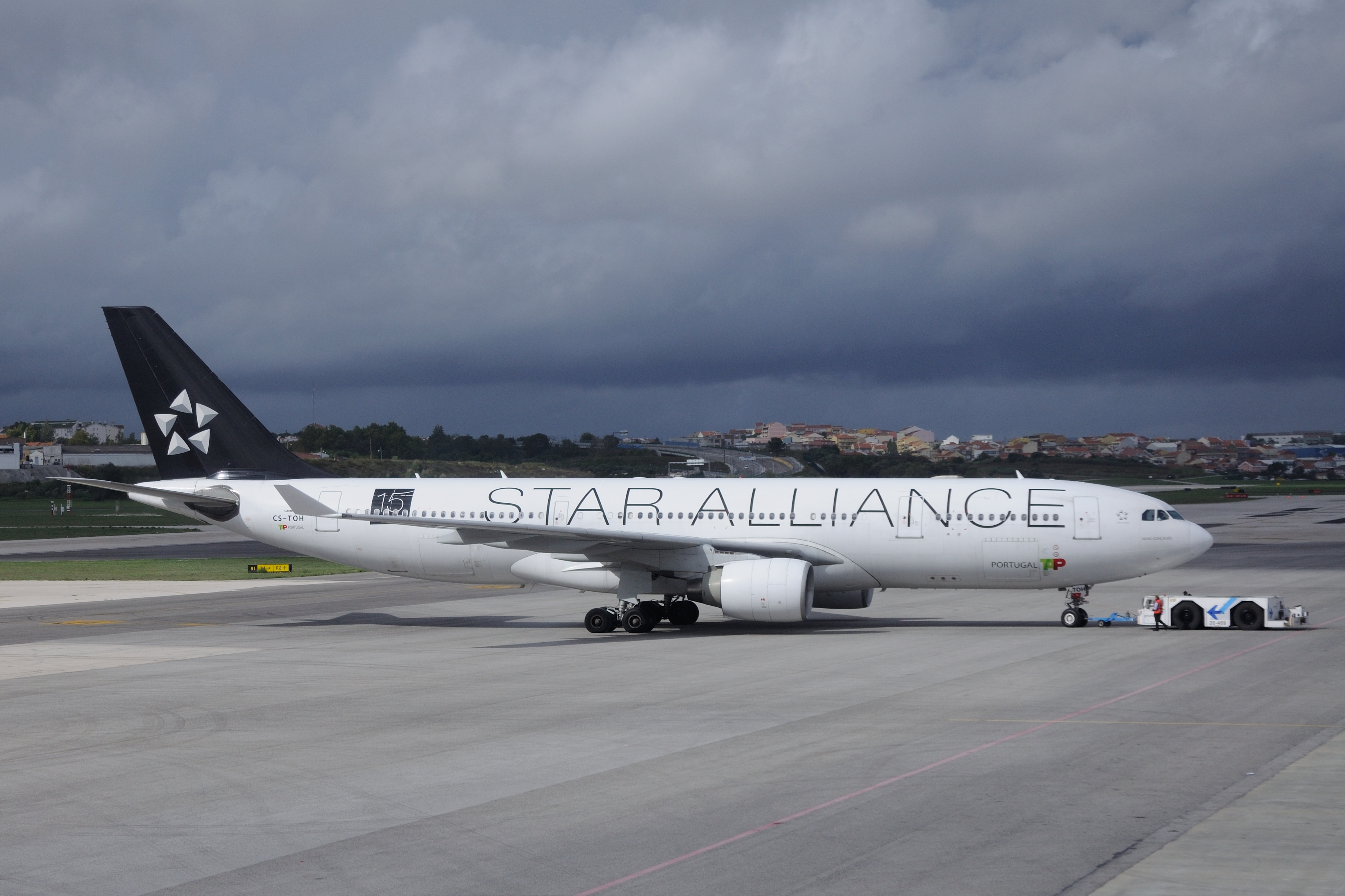 Portugal, spotting at Lisbon Portela Airport